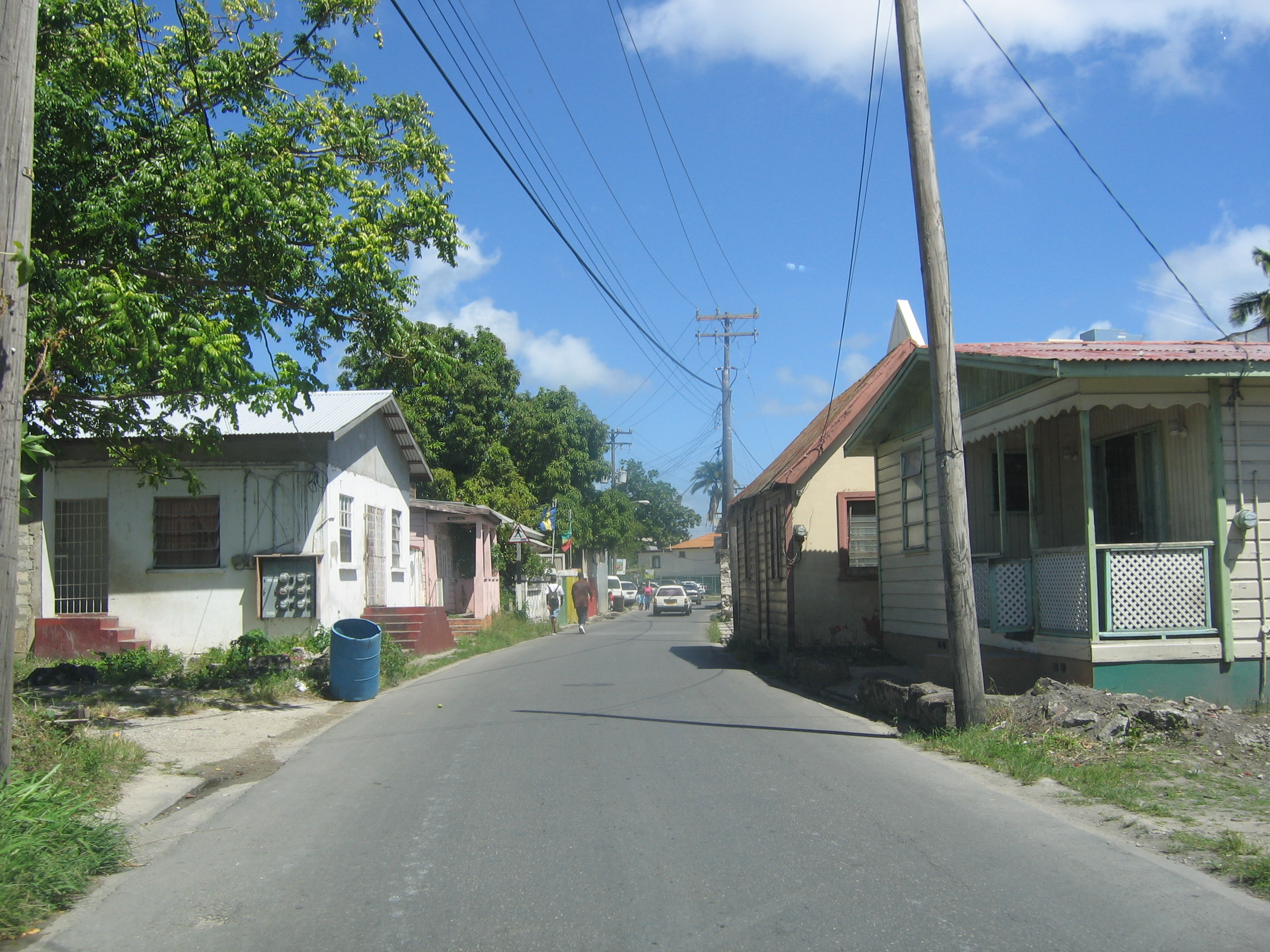 Bridgetown, Saint Michael, Barbados.